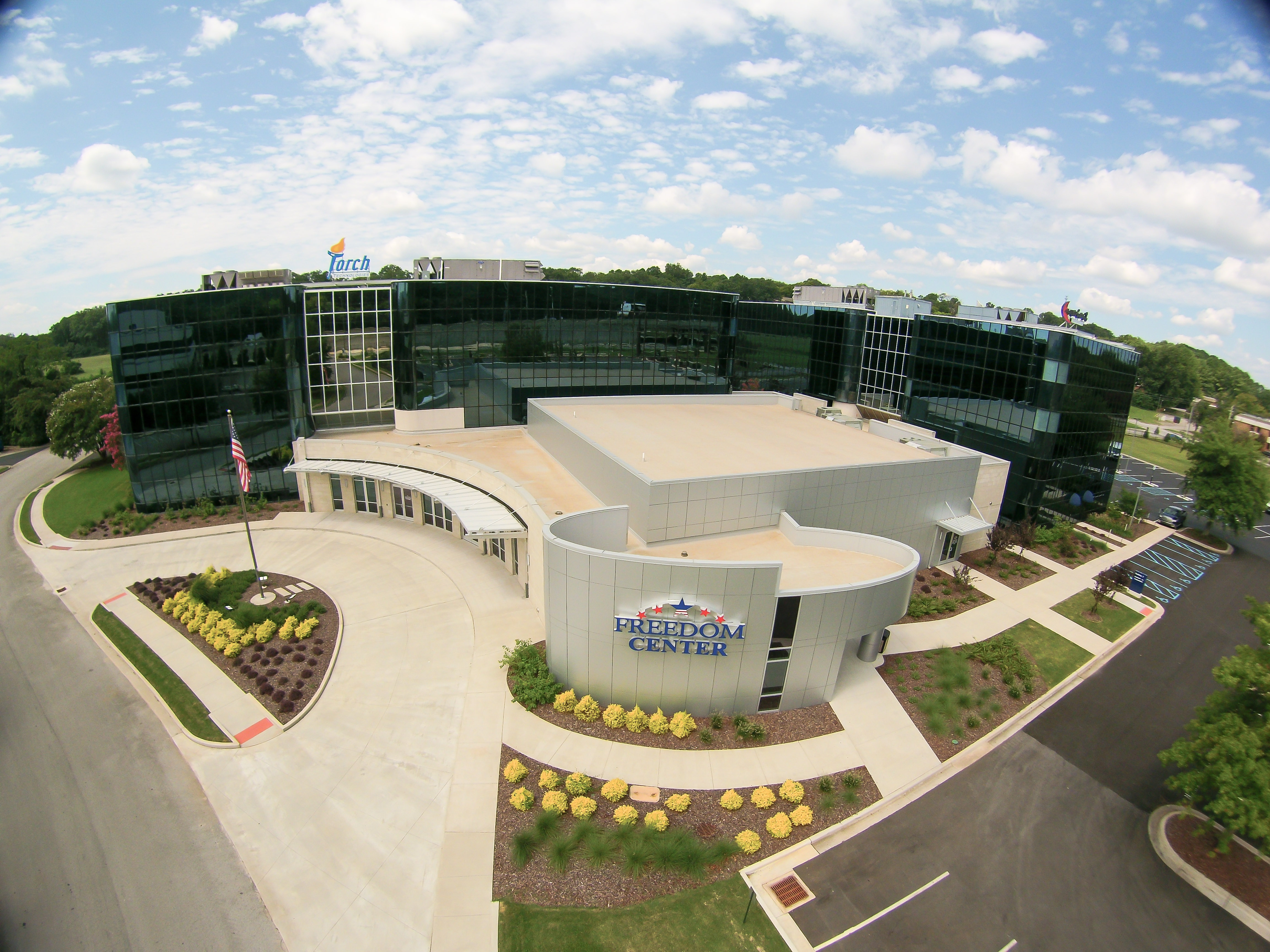 Drone shot of our headquarters taken by our own employee-owner Clayton Newkirk.